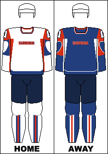 The home and away jerseys of the Slovenian national ice hockey team (without the symbol of the Slovenian Ice Hockey Federation in the middle).